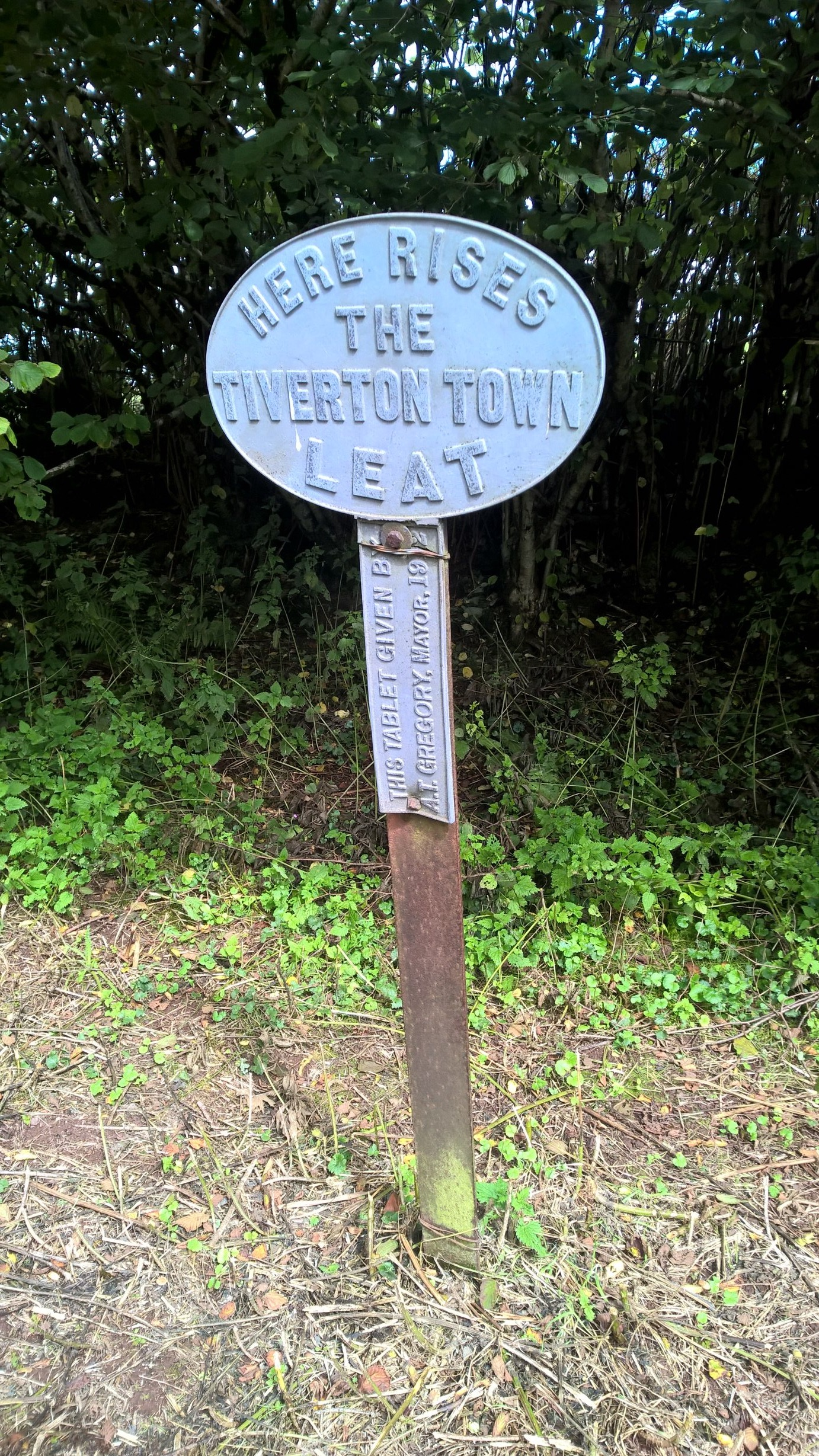 This sign is located just above the source of the Tiverton town leat at Norwood Common, Devon, England.